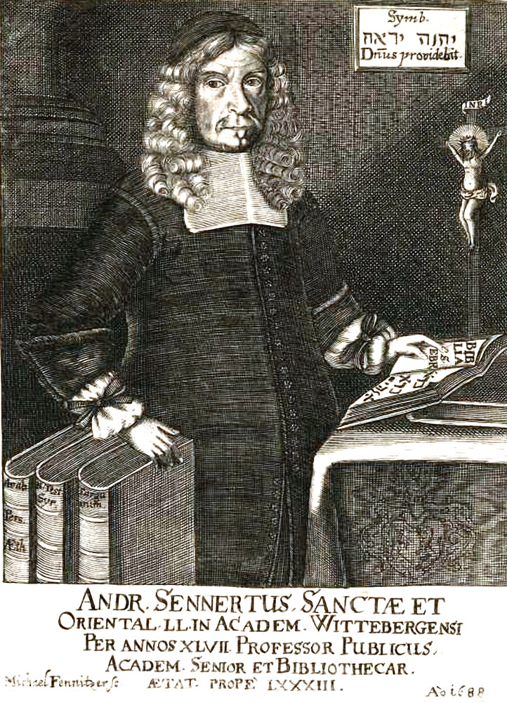 Andreas Sennert (1606-1689) german Orientalist and Librarian.